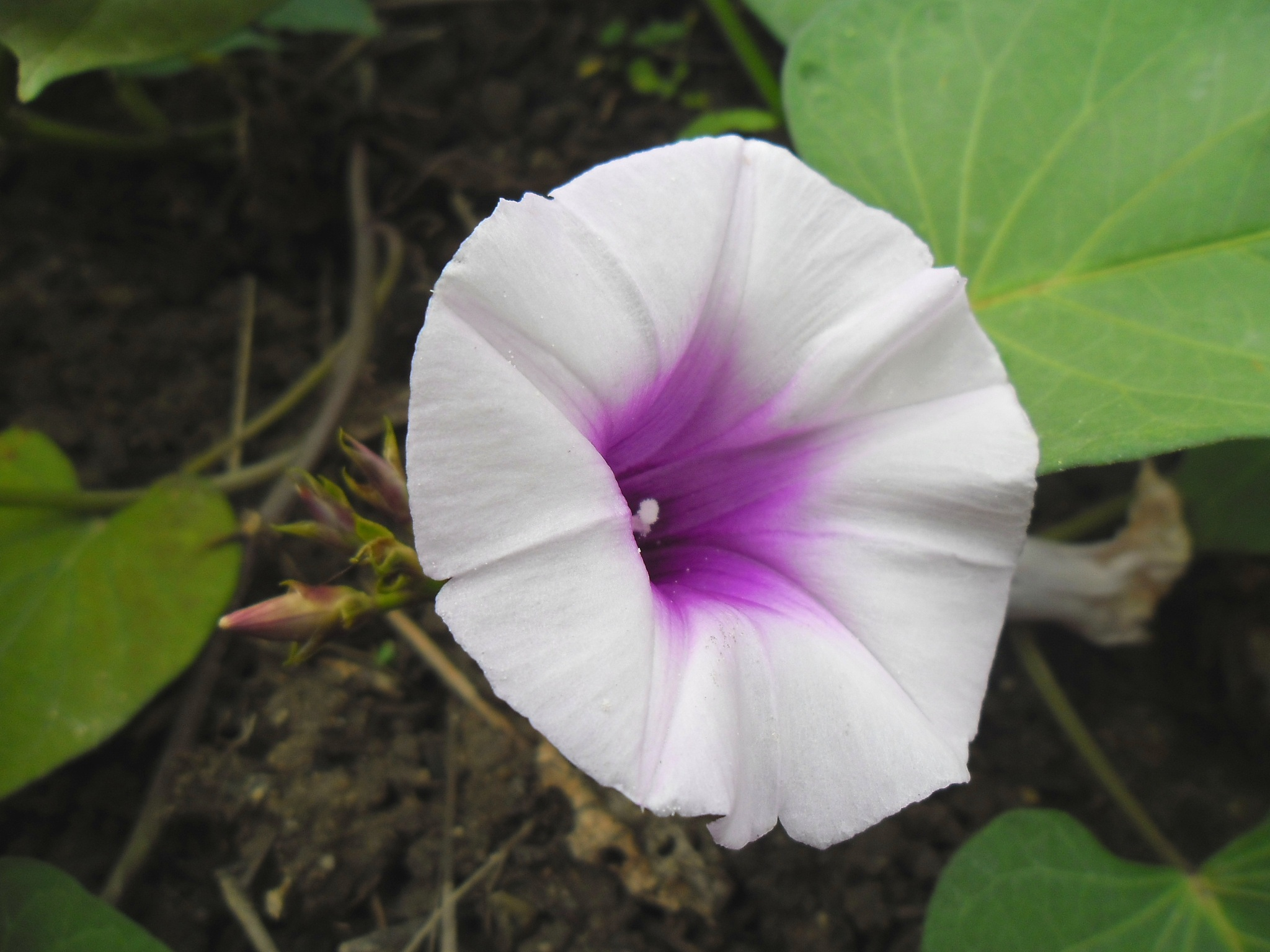 Earth100 captured this beautiful shot of Earth100's Purple Sweet potato variety in full bloom, in Earth100's farm, in Hong Kong, on the morning October 27, 2012.